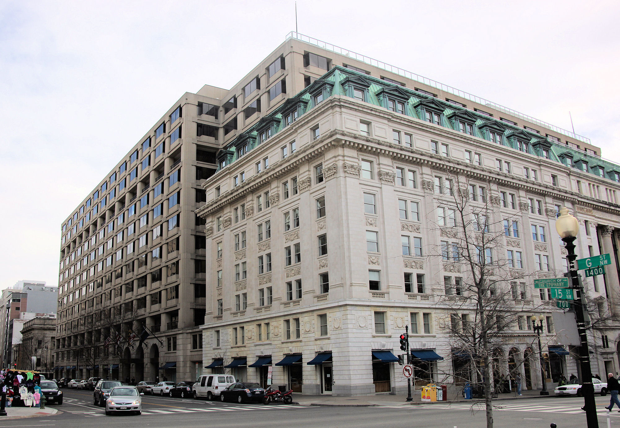 Looking southeast at the north facade of Metropolitan Square in Washington, D.C., in the United States. Metropolitan Square is a 12-story hotel and office building complex that occupies the entire block between F and G Streets NW and 14th and 15th Streets NW (due east across the street from the United States Treasury Building). The complex was proposed in November 1977 by developer Oliver T. Carr. After several years of legal battles, Carr agreed to retain the Beaux Arts western facades of the Keith-Albee Building and the Metropolitan National Bank Building. Carr retained architect Vlastimil Koubek to design the new building behind the facade, and hired the New York City firm of Skidmore, Owings and Merrill as consulting architects. Construction on the new building began in 1980. After the demolition of Rhodes Tavern in 1984, the old facade was extended south to the corner of 15th and F Streets NW. Old Ebbitt Grill occupies this corner of the building (street-level blue awnings).